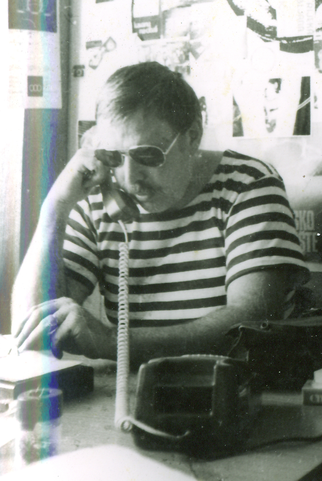 Boško Obradović, conceptual creator of the famous rock band "Atomic Shelter" from Pula